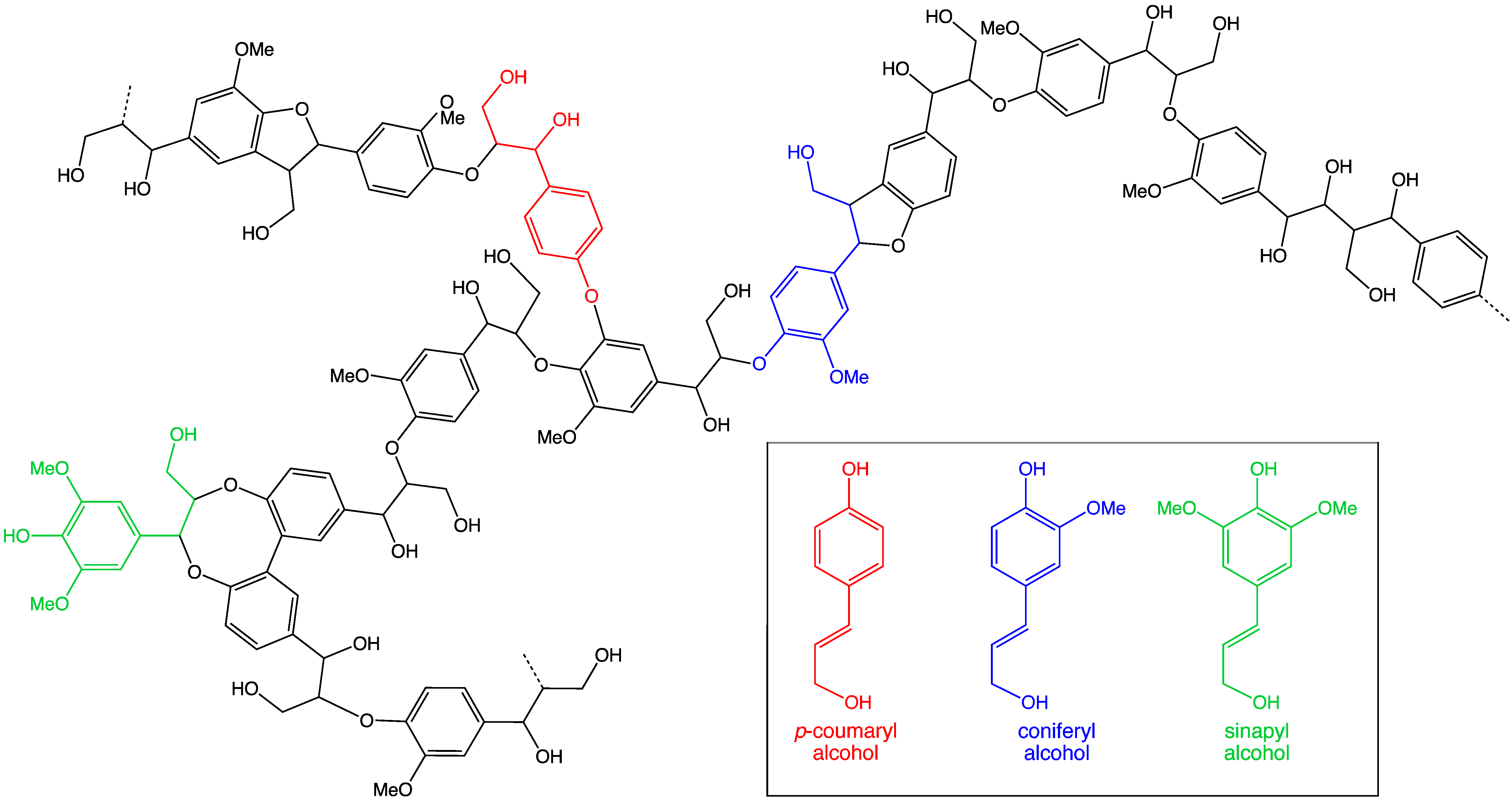 General structure of lignin. Inset of lignol monomers